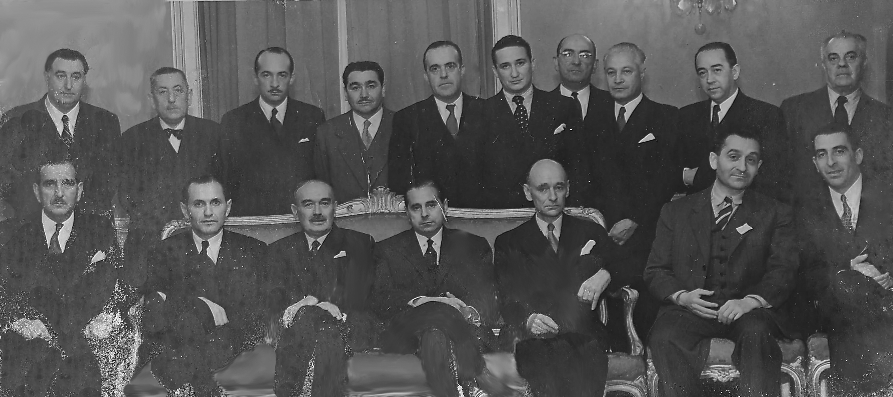 Reception at the Club de la Unión. Sitting, left to right: 4: Germán Picó Cañas; 7: Eduardo Frei Montalva. Standing: 3: Raúl Fernández Longe; 6: Manuel Truccco Gaete